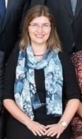 Romanian-American neuroscientist Viviana Gradinaru among recipients of the Presidential Early Career Award for Scientists and Engineers (PECASE) in a group photo in the East Room of the White House, May 5, 2016.